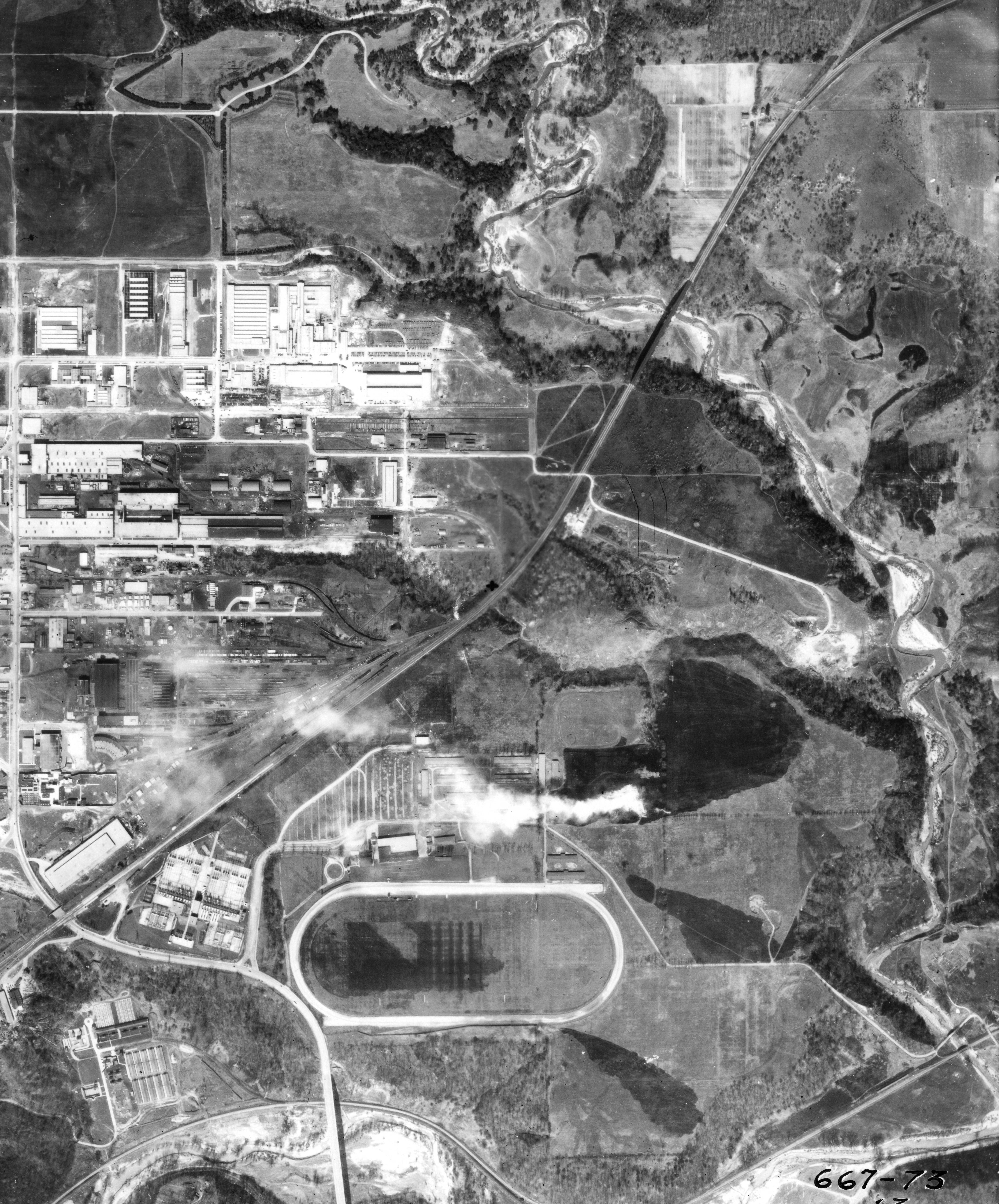 Aerial Photograph of Throncliffe, York Township (Toronto), 1942